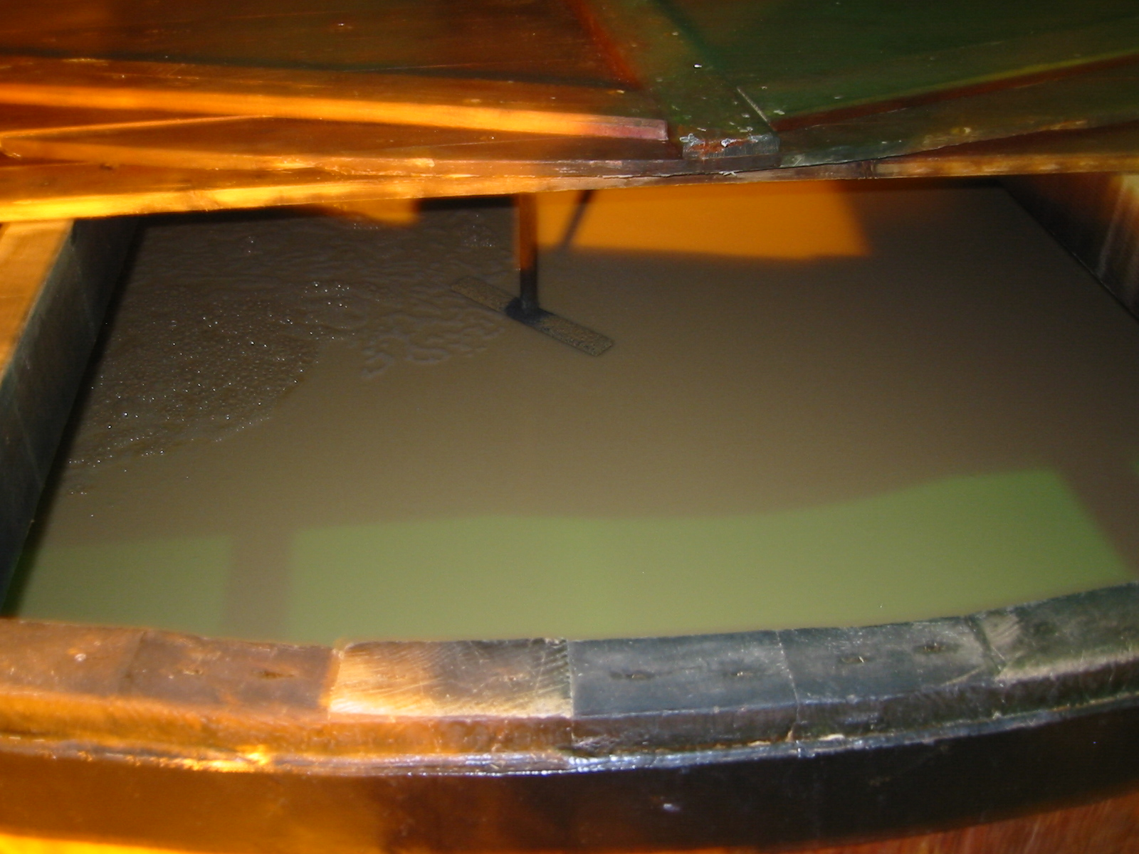 Fermenting step in the preparation of Auchentoshan, a triple-distilled, single malt, lowland Scotch whisky. taken by User:Nicor